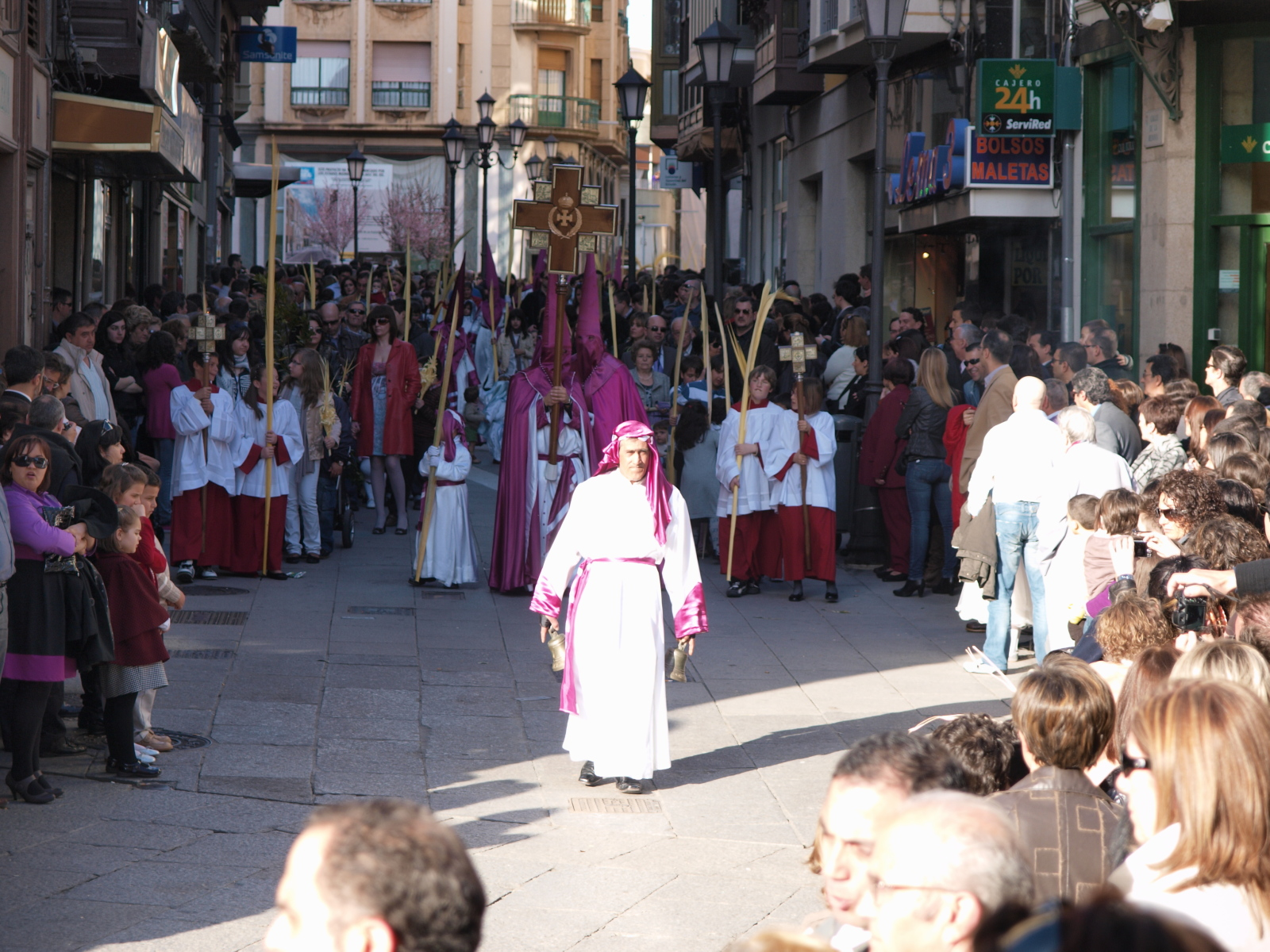 Procession of the religious brotherhood Real Cofradía de Jesús en su Entrada Triunfal en Jerusalén (La Borriquita), Zamora, Spain, Holy Week 2010